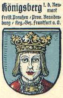 Coat of arms of Königsberg in der Neumark (Chojna) from the 1920s.